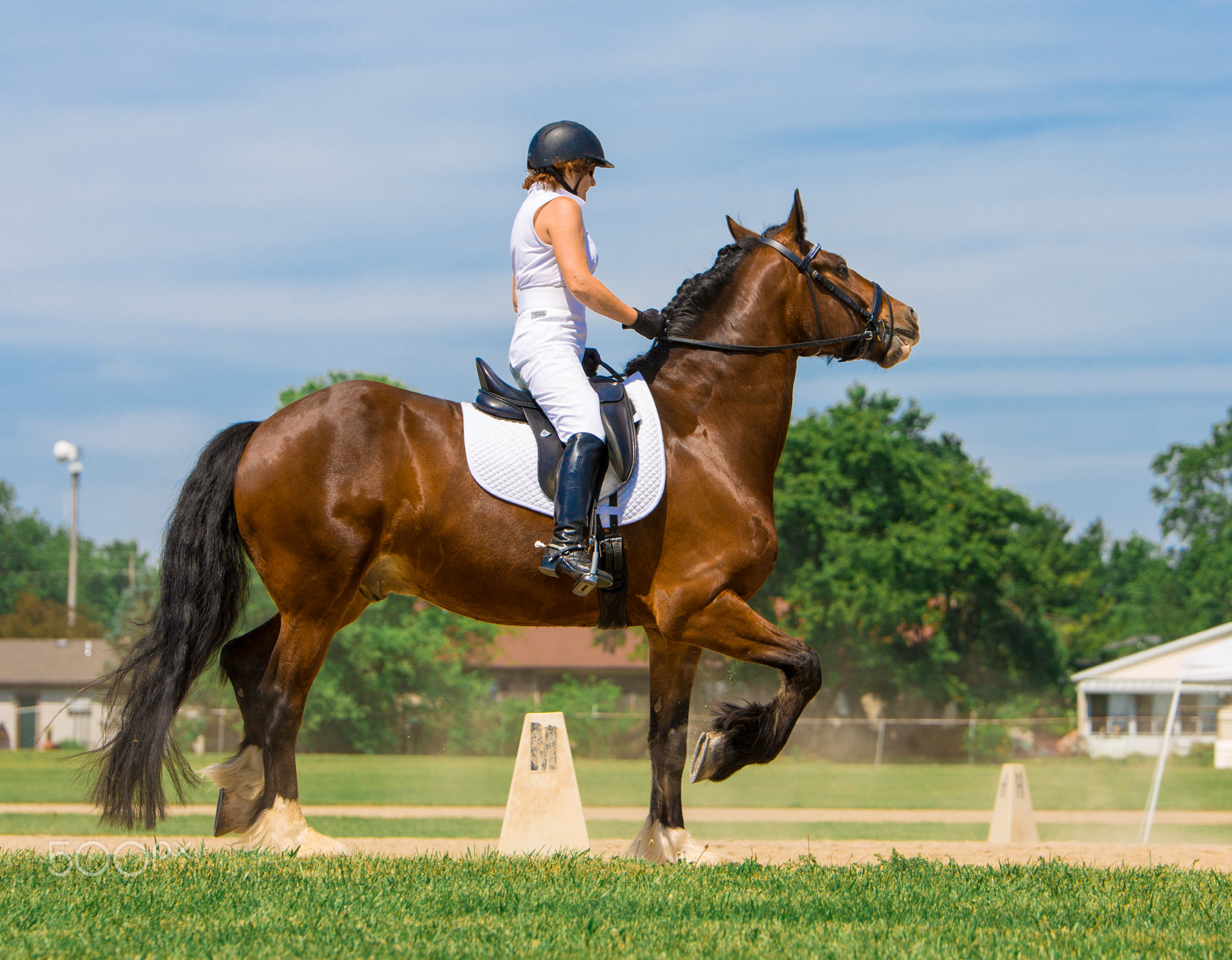 500px provided description: Showtime Series at Delaware, OH [#sky ,#beauty ,#clouds ,#animals ,#summer ,#beautiful ,#animal ,#canon ,#5d ,#horse ,#horses ,#dressage ,#ohio ,#2.8 ,#riding ,#equine ,#70-200mm ,#Tamron ,#Canon 5d iii]